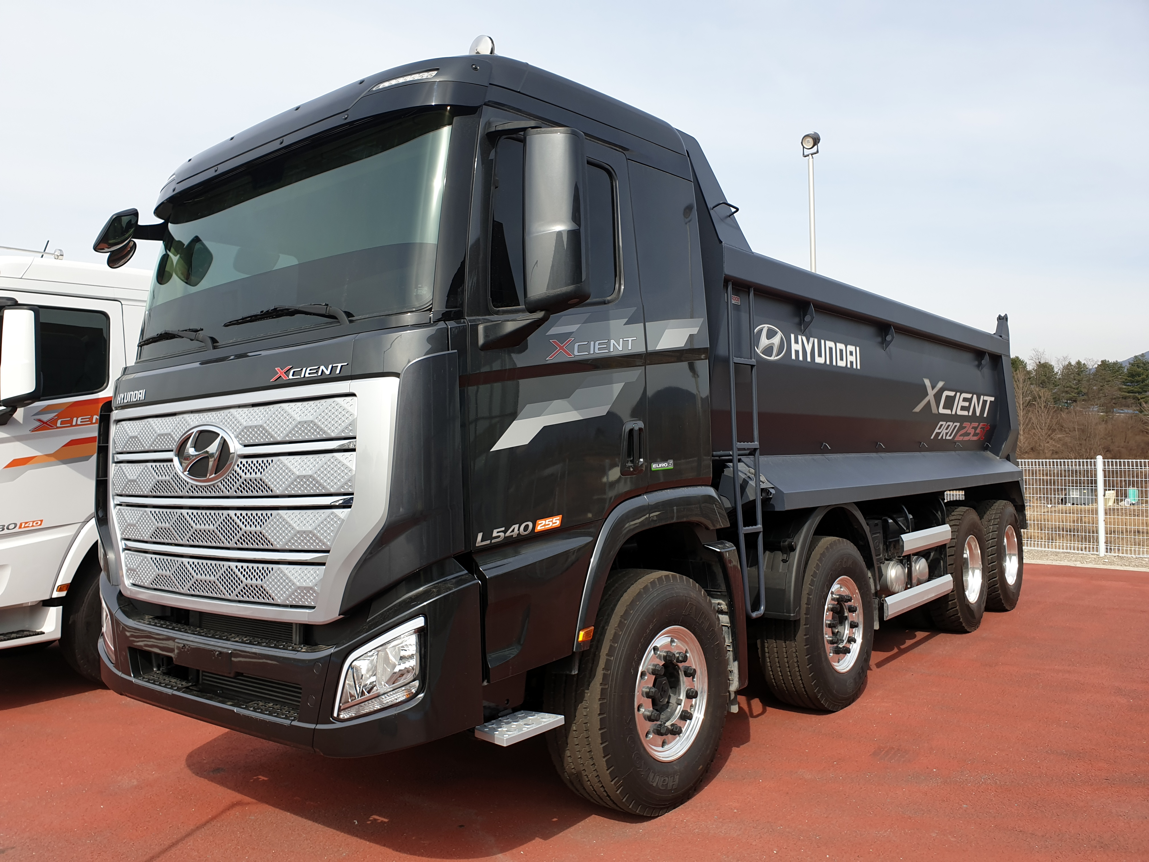 Hyundai Xcient Pro Dump